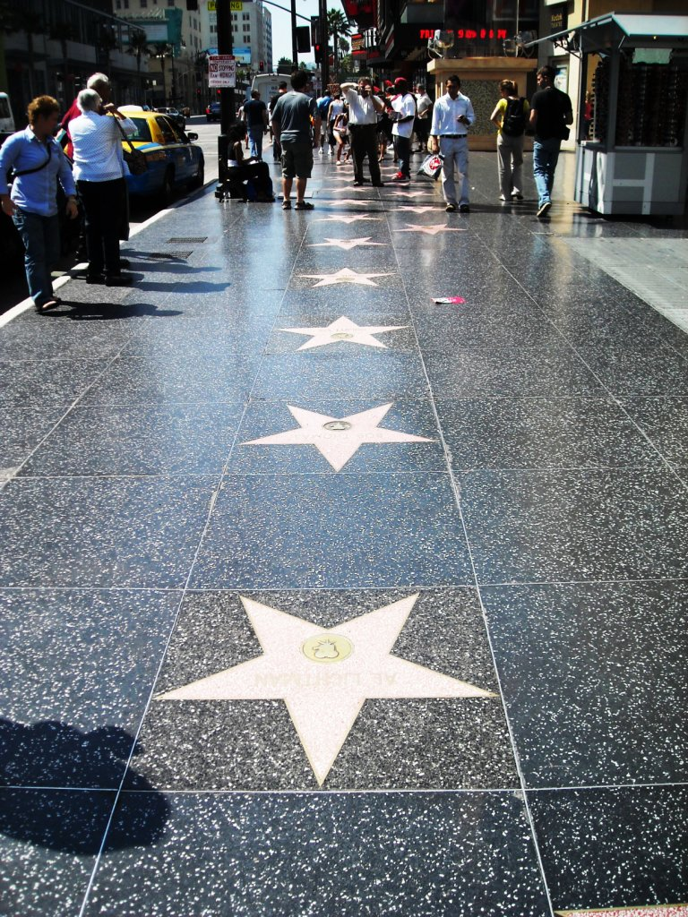 Hollywood Boulevard Commercial and Entertainment District, 6200-7000 Hollywood Blvd., N. Vine St., N. Highland Ave. and N. Ivar St. Hollywood